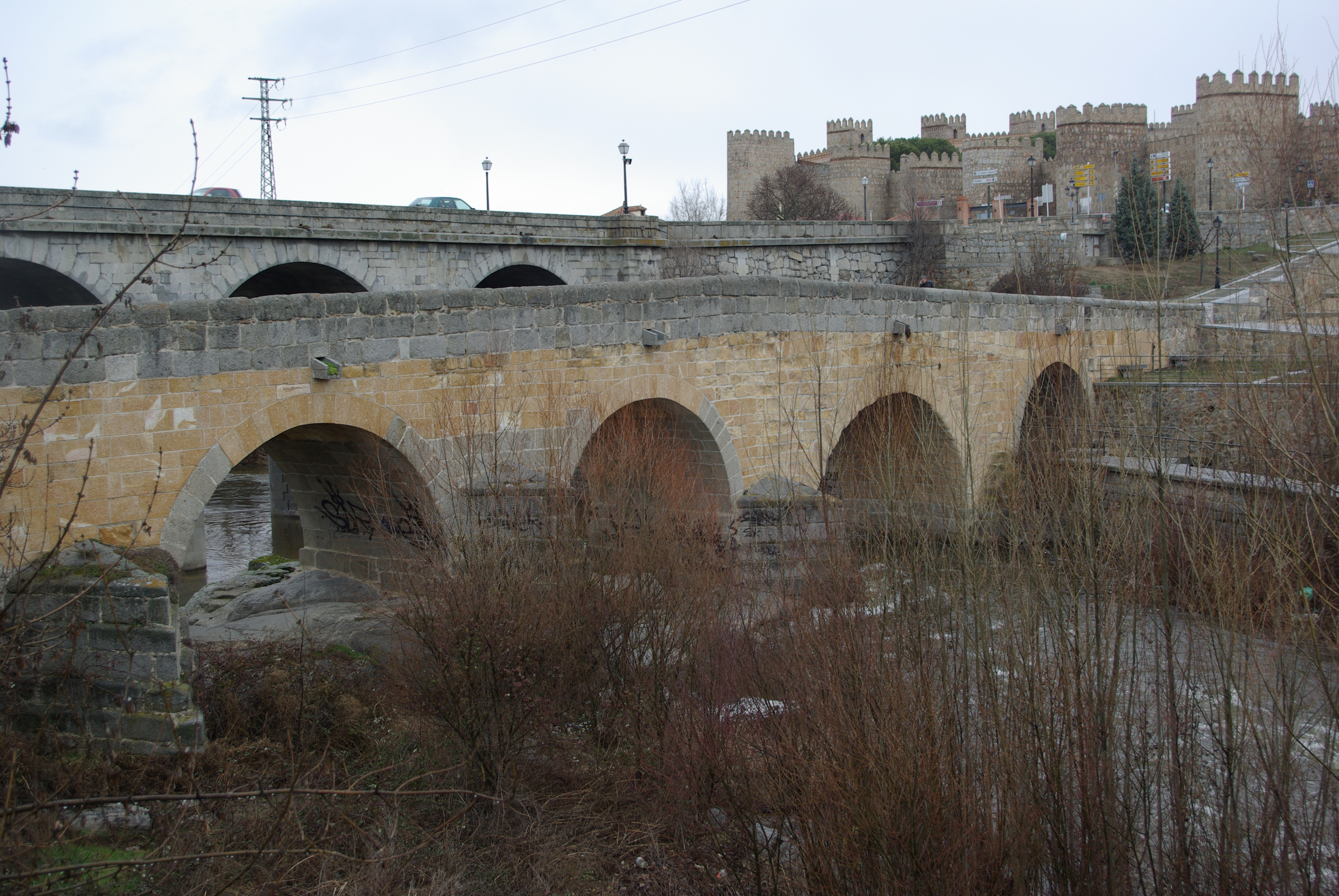 Adaja Bridge and Walls of Ávila (Spain)